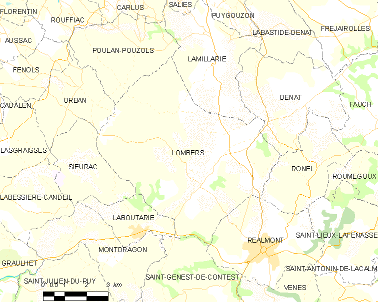 Map of French municipality Lombers